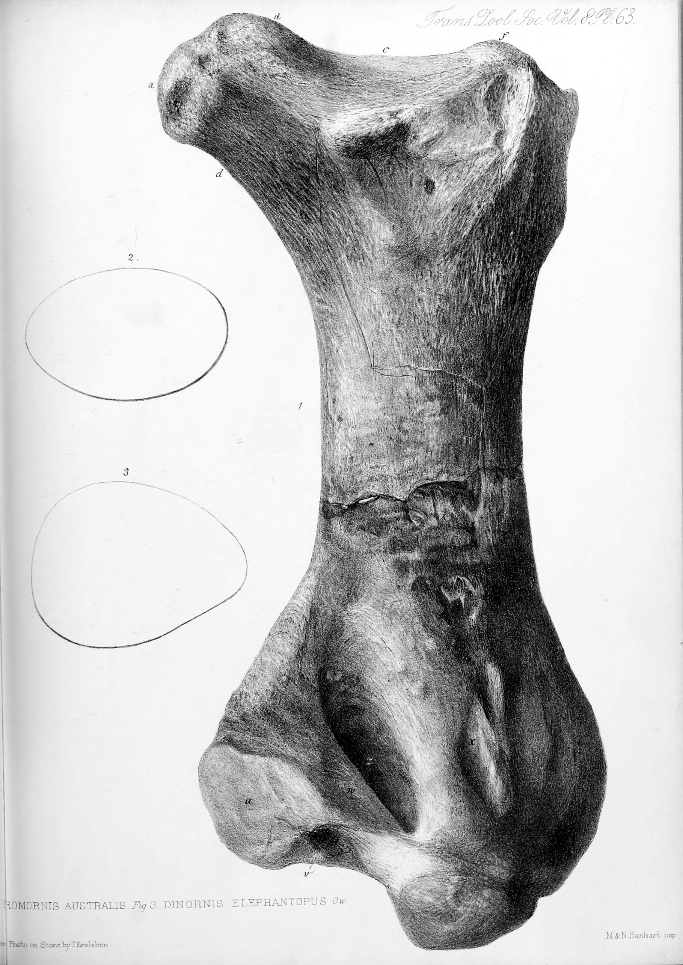 photolithographic Illustration of holotype of extinct species